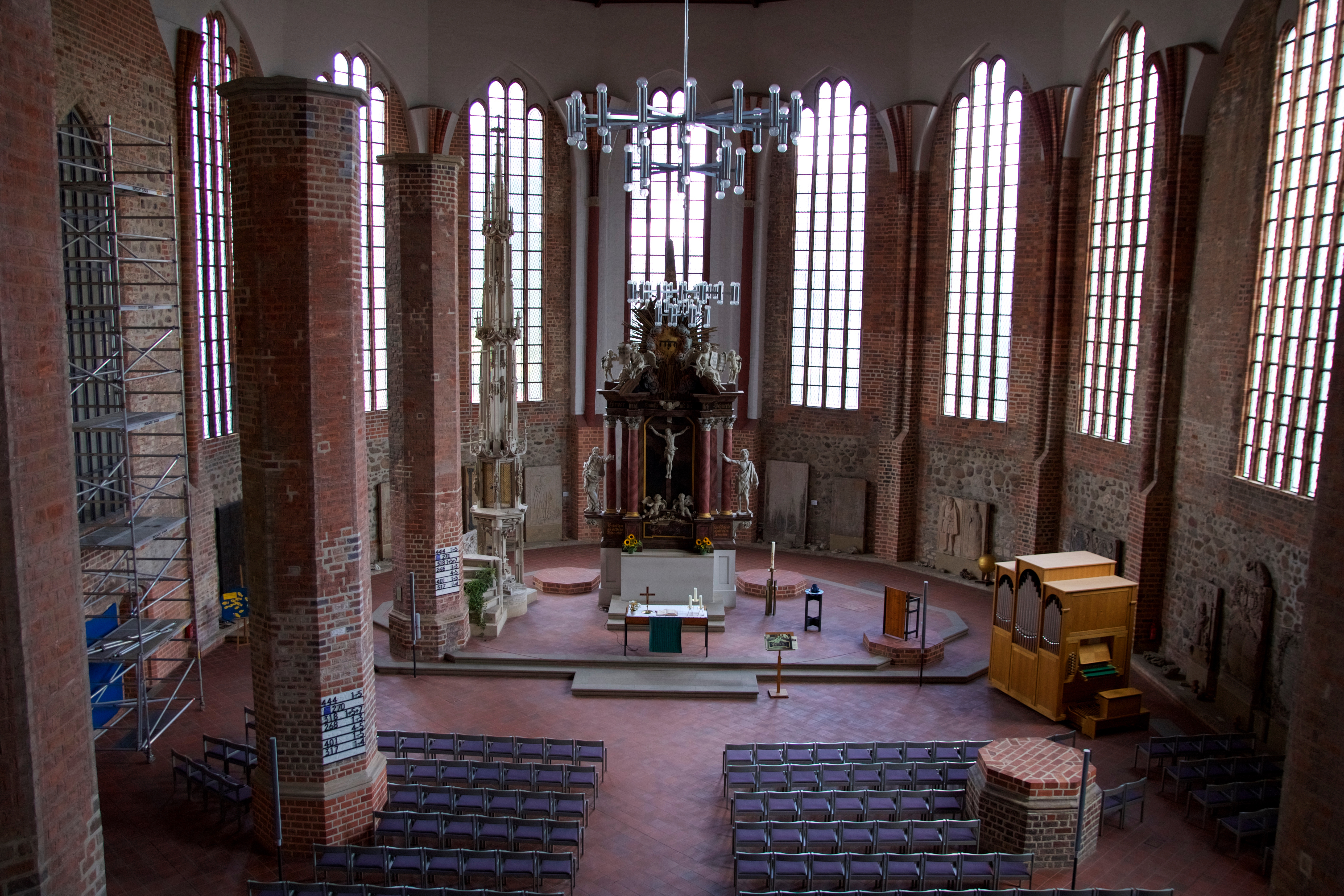 View of the chancel of Fürstenwalde Cathedral from the organ loft